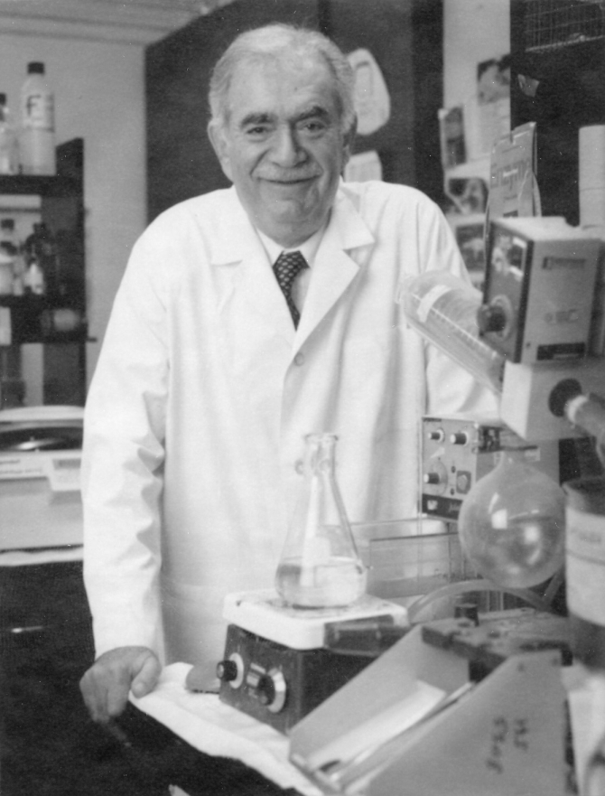 Harry Schachter, Department of Biochemistry, University of Toronto.